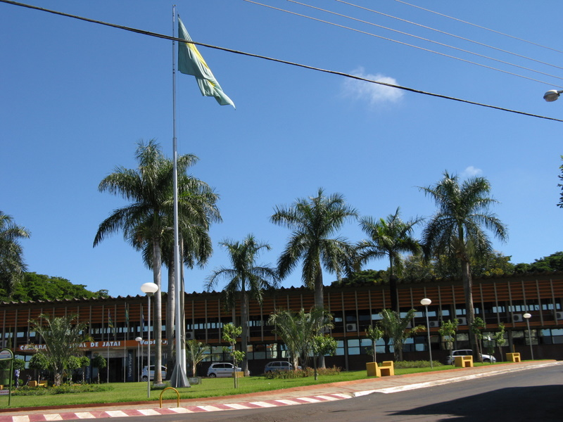 City Council Jataí Brazil